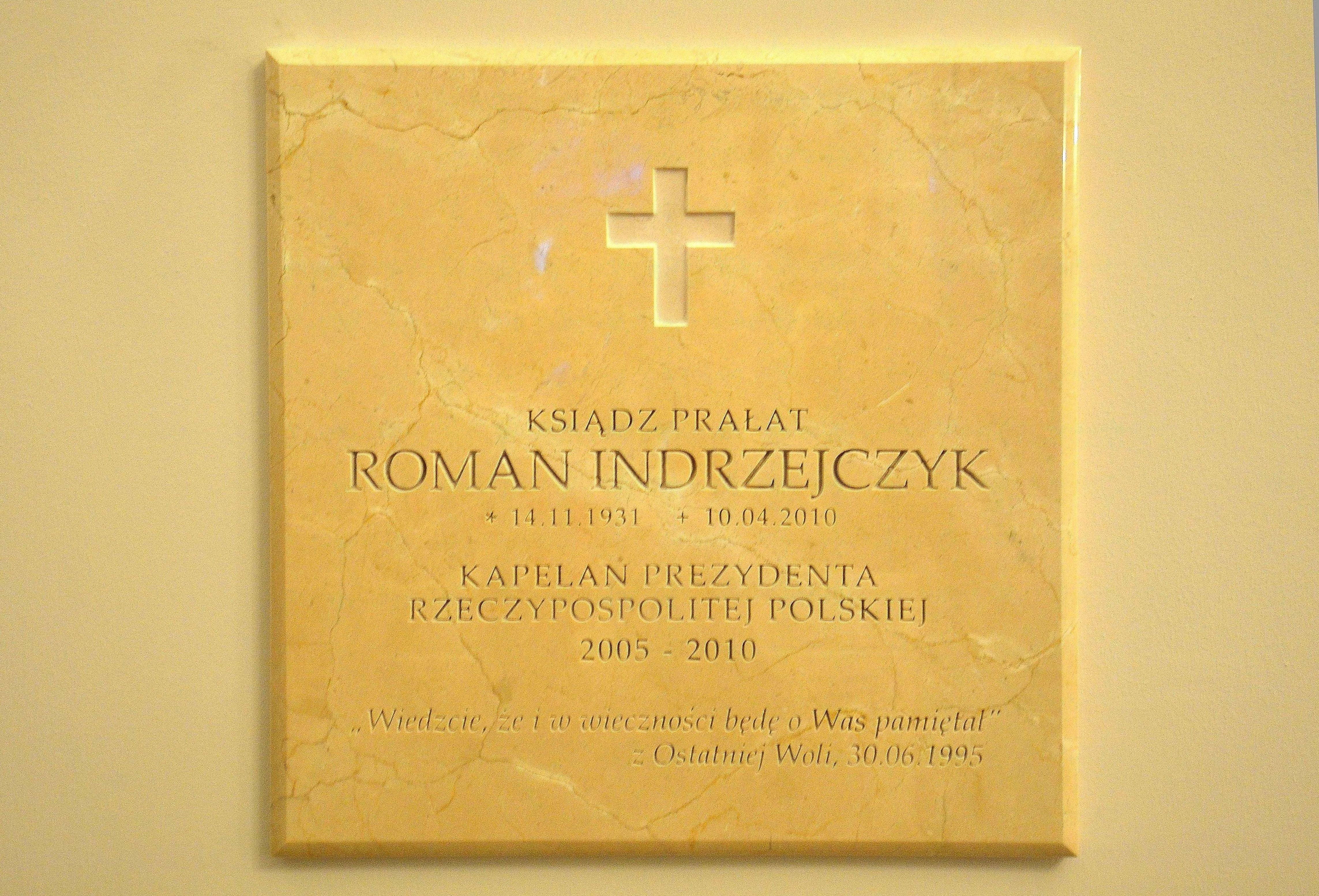 A plaque in memory of Rev. Roman Indrzejczyk in the chapel of the Presidential Palace in Warsaw